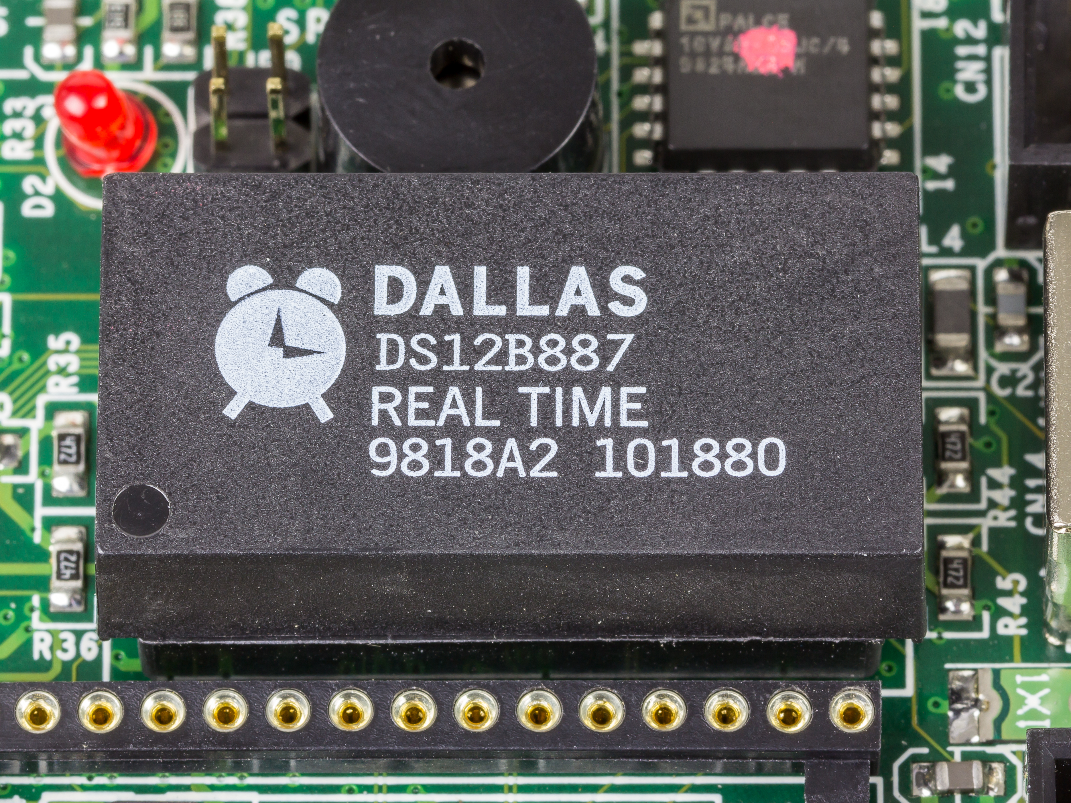 ROCKY-518HV - Dallas Semiconductor DS12B887 - real time clock